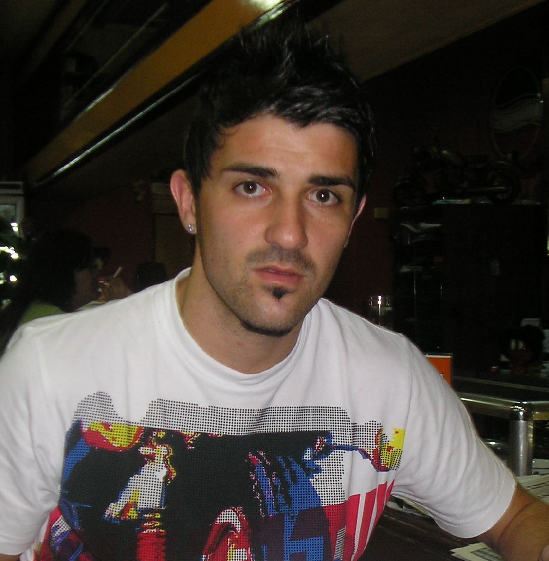 David Villa, footballplayer from Spain